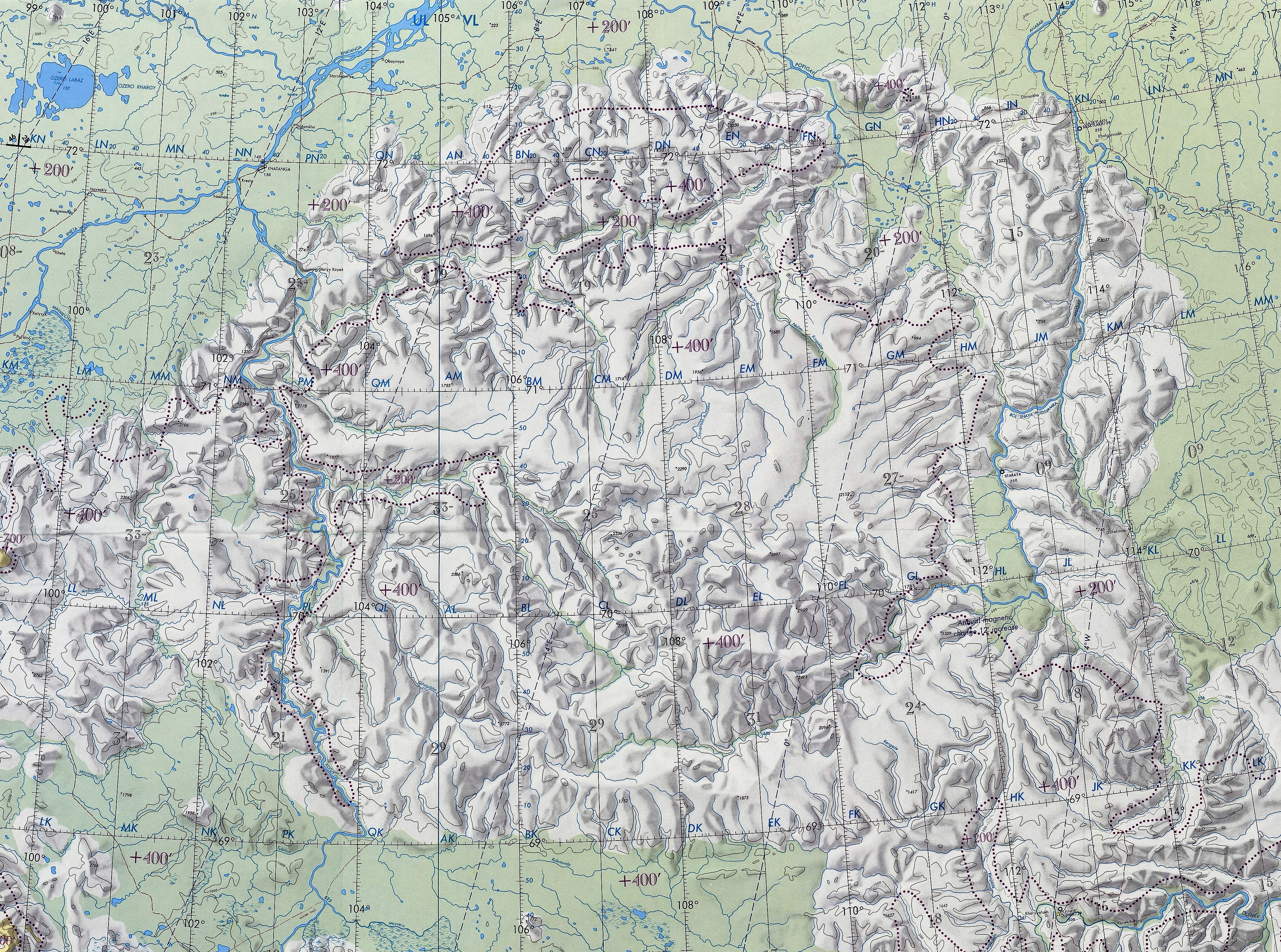 Map section showing the Anabar Plateau. Siberia, Russia